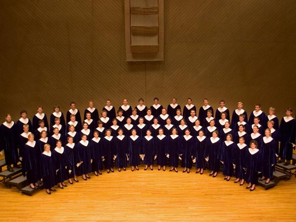 Work by me.